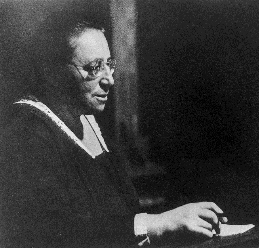 Emmy Noether